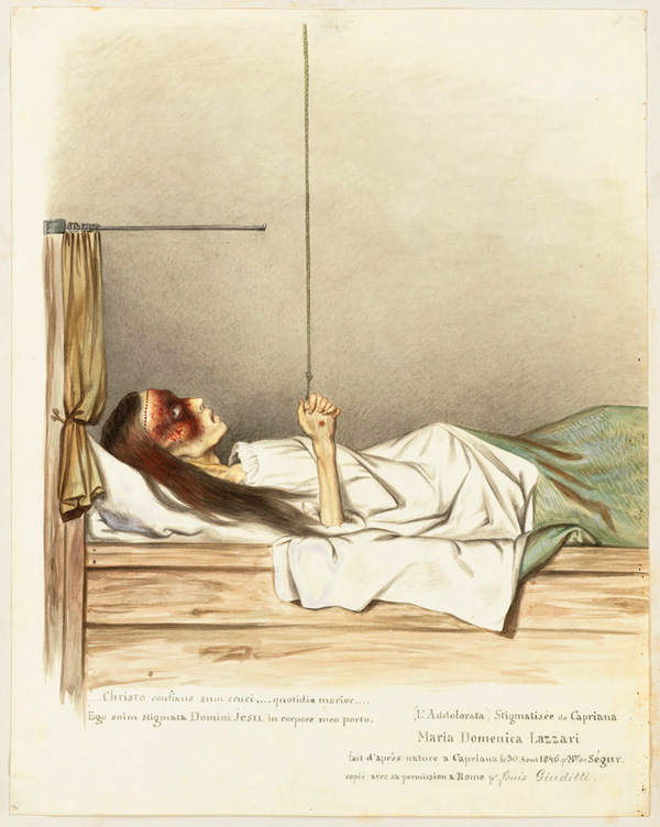 Maria Domenica Lazzeri with stigmata on her hands. Watercolour by L. Giuditti after L.G. de Ségur